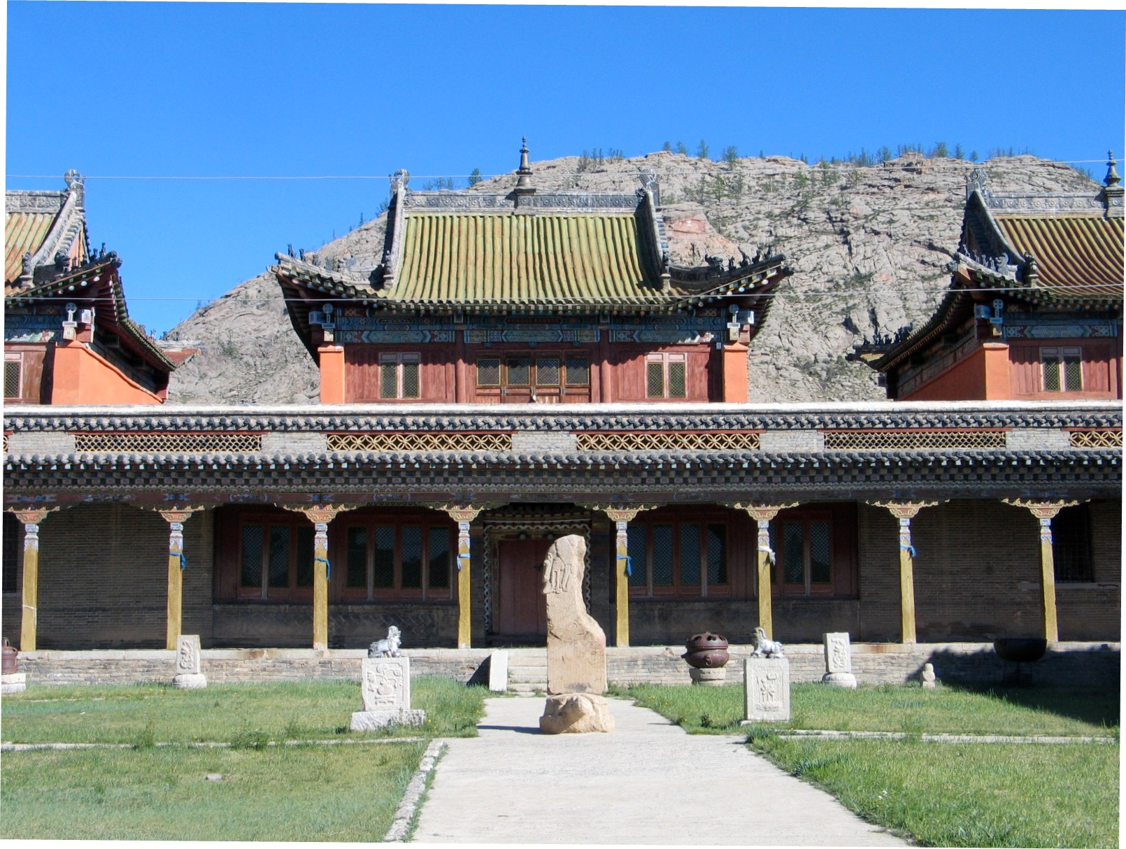 Tsetserleg Lamaist monastery, Mongolia. The tortoise-based stele in front is, apparently, [a copy of] the stele with the Bugut Inscription, from the 6th century. A larger photo of the stele can be seen in "On the Bugut Inscription and Mausoleum Complex", by Dr. Cengiz Alyilmaz